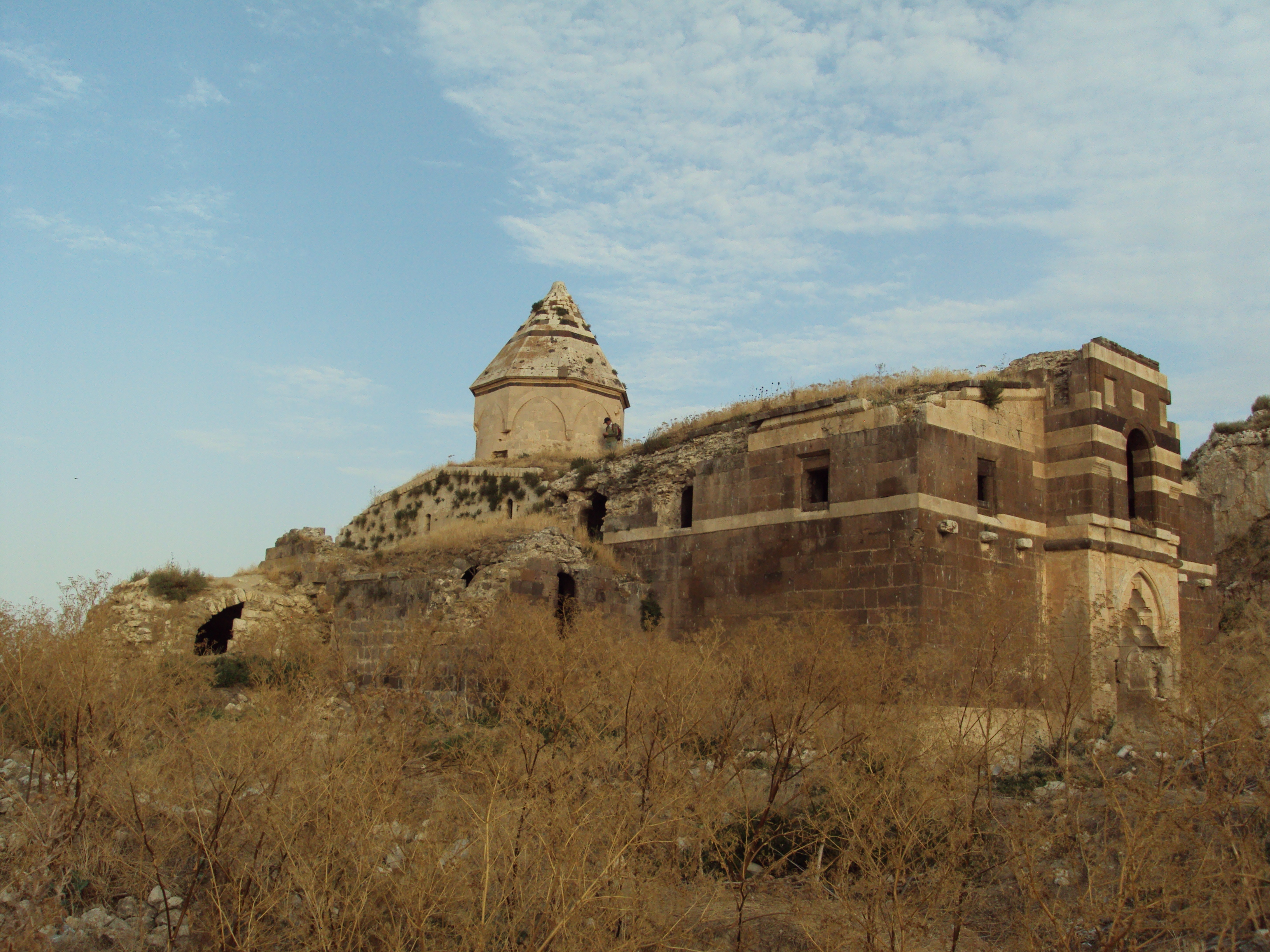 15th century Armenian monastery on the small island of Ktuts (Çarpanak) in Lake Van, Vaspurakan (present-day Turkey)